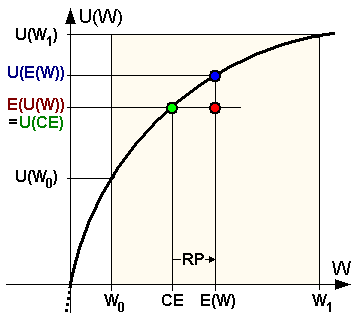 Utility function of a risk-averse (risk-avoiding) person: CE - Certainty equivalent; E(U(W)) - Expected value of the utility (expected utility) of the uncertain payment; E(W) - Expected value of the uncertain payment; U(CE) - Utility of the certainty equivalent; U(E(W)) - Utility of the expected value of the uncertain payment; U(W0) - Utility of the minimal payment; U(W1) - Utility of the maximal payment; W0 - Minimal payment; W1 - Maximal payment; RP - Risk premium